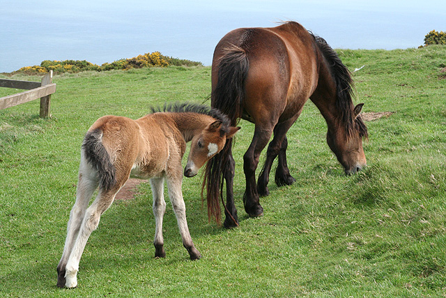 Countisbury: Exmoor mare and foal. By Great Red on the public footpath leading to the Foreland and Caddow Combe. Looking north east